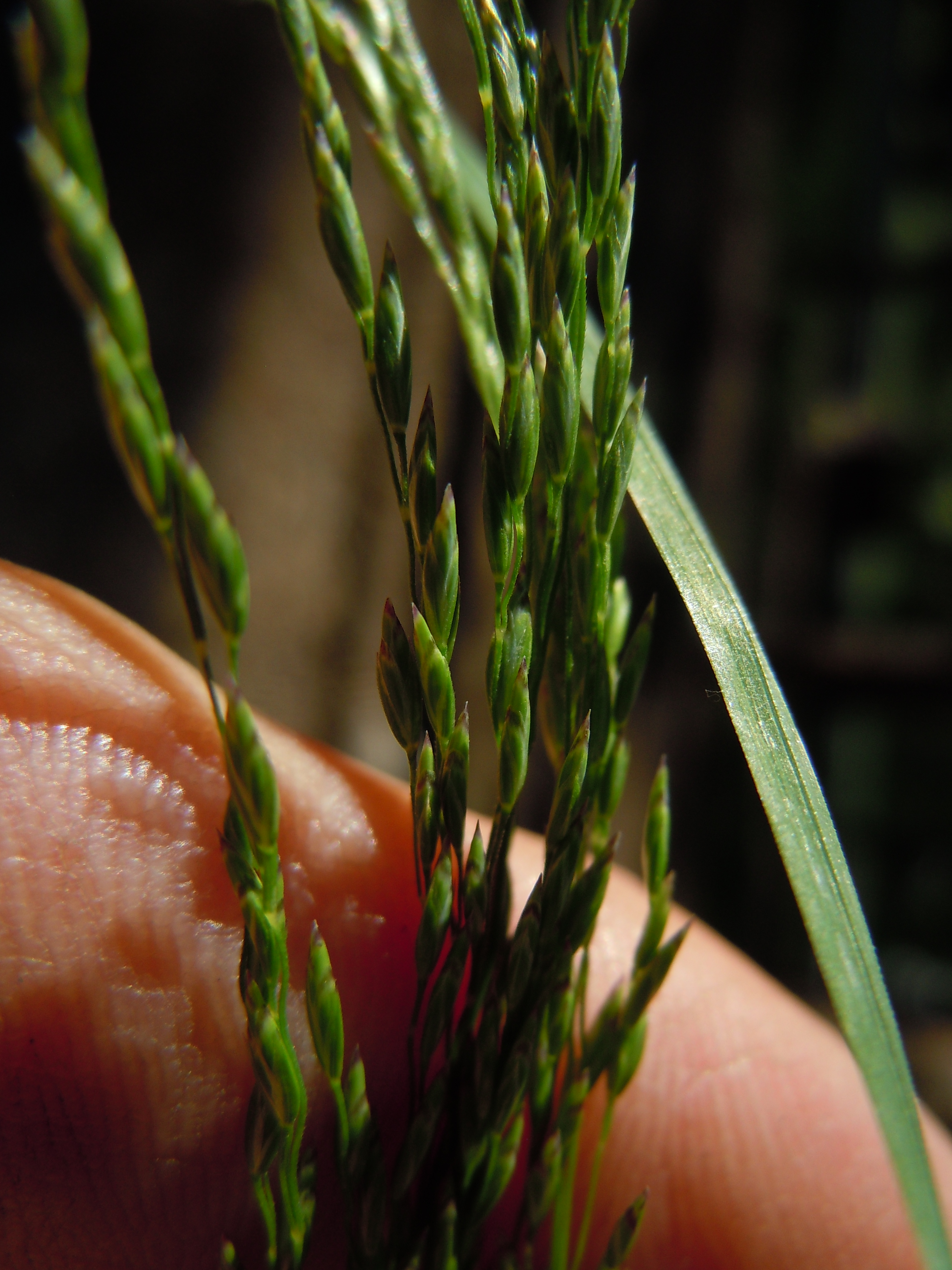 Poa palustris has relatively small spikelets (e.g., less than 4 mm) with tightly overlapping generally hairless florets.